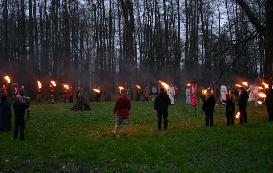 Rodnover ceremony in Poland.